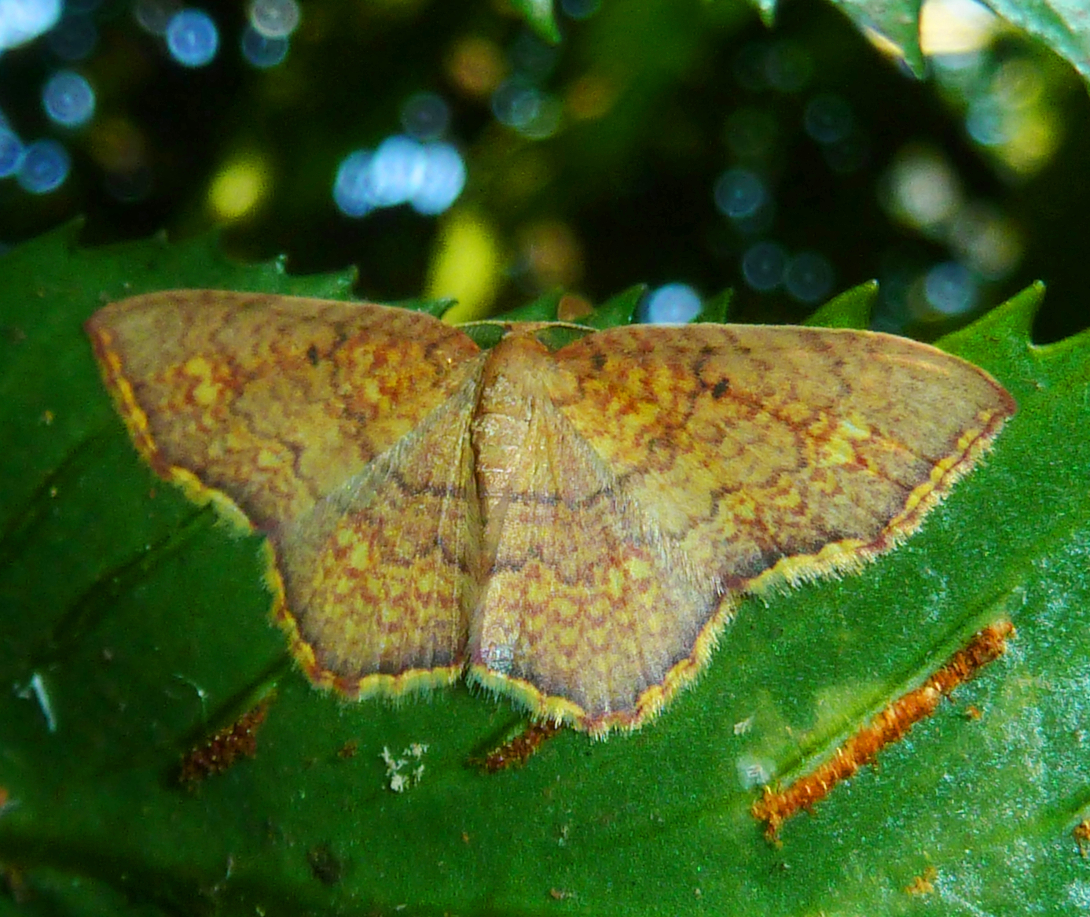 Eois grataria ab. mediofusca Prout hiding on underside of a fern frond in Molweni valley, Krantzkloof Nature Reserve